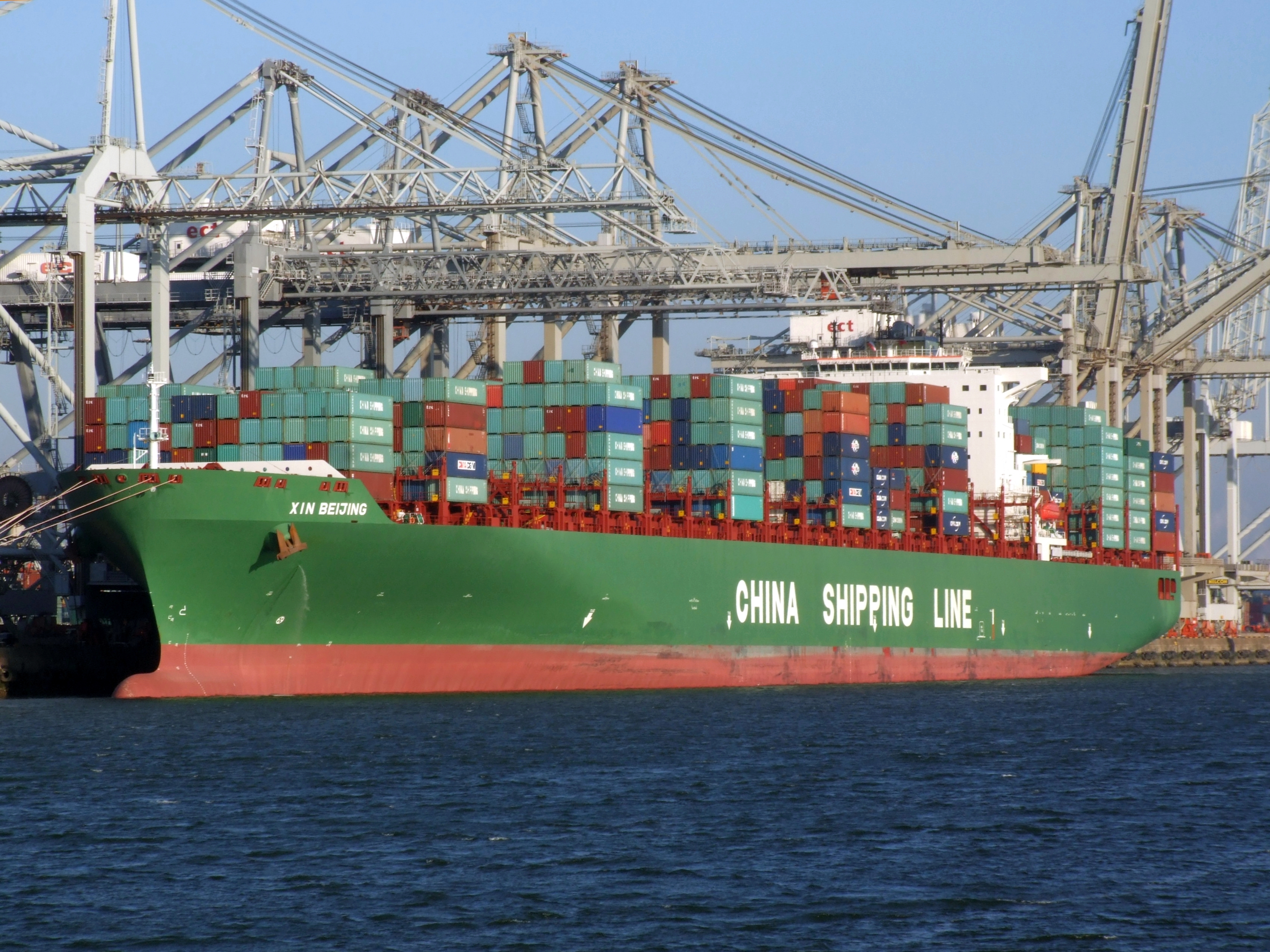 Xin Beijing IMO 9314246, at the Amazone harbour, Port of Rotterdam, Holland 01-Jan-2008.